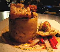 El Mofongo